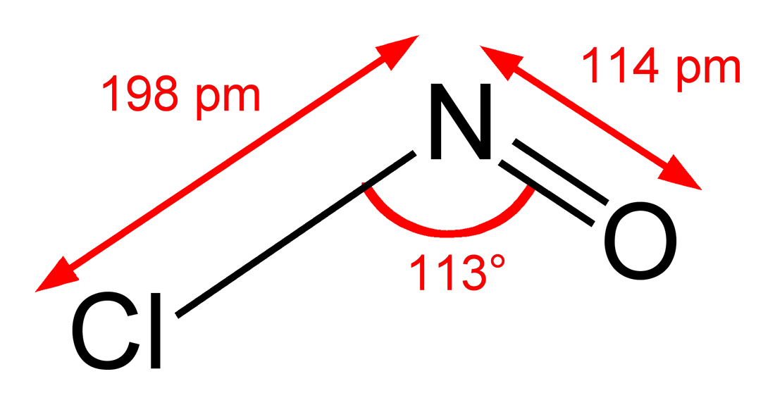 Structure and dimensions of the nitrosyl chloride molecule, ONCl. I can't remember where I got the dimensions are from, but most likely Greenwood & Earnshaw: Greenwood, N. N.; Earnshaw, A. (1997) Chemistry of the Elements (2nd ed.), Oxford:Butterworth-Heinemann ISBN: 0-7506-3365-4.